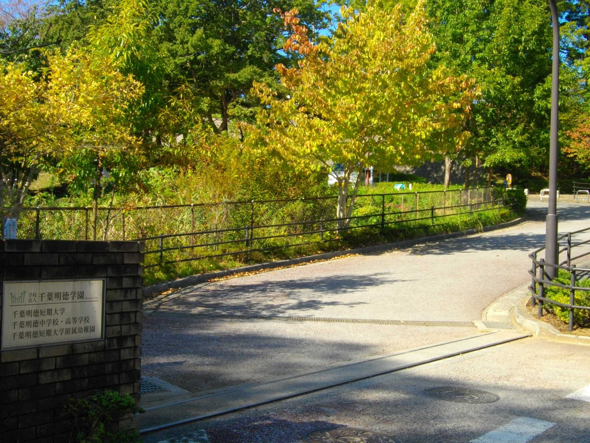 Entrance to Chiba Meitoku Gakuen